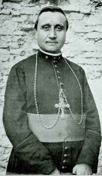 Military chaplains mobilized from September 20, 1916 to March 21, 1917. Mons. Angelo Bartolomasi, bishop of military chaiplains. Mons. Angelo Bartolomasi